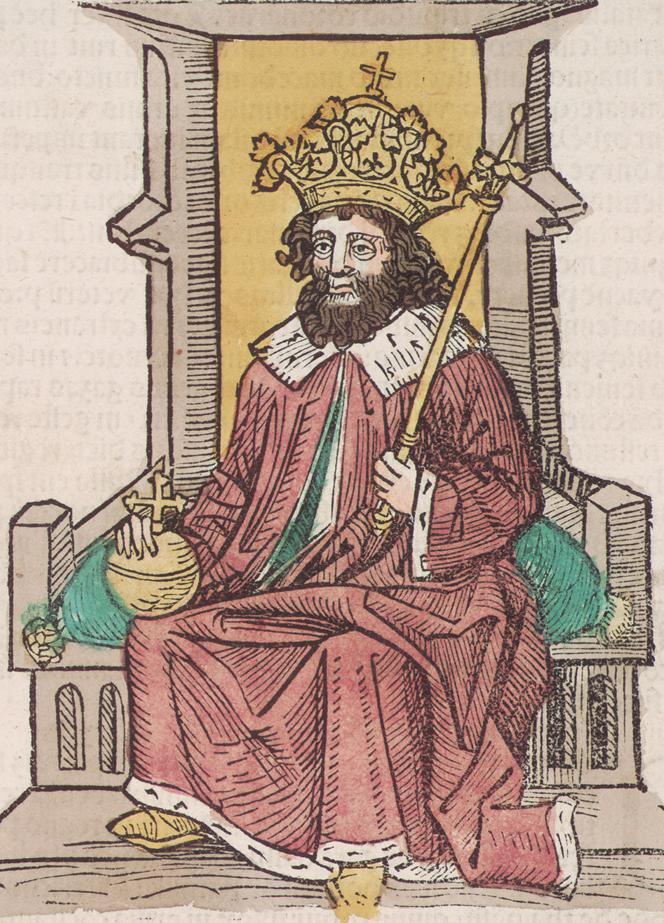 King Władysław III (I. Ulászló) of Varna engraving in Chronica Hungarorum by Thuróczi János.